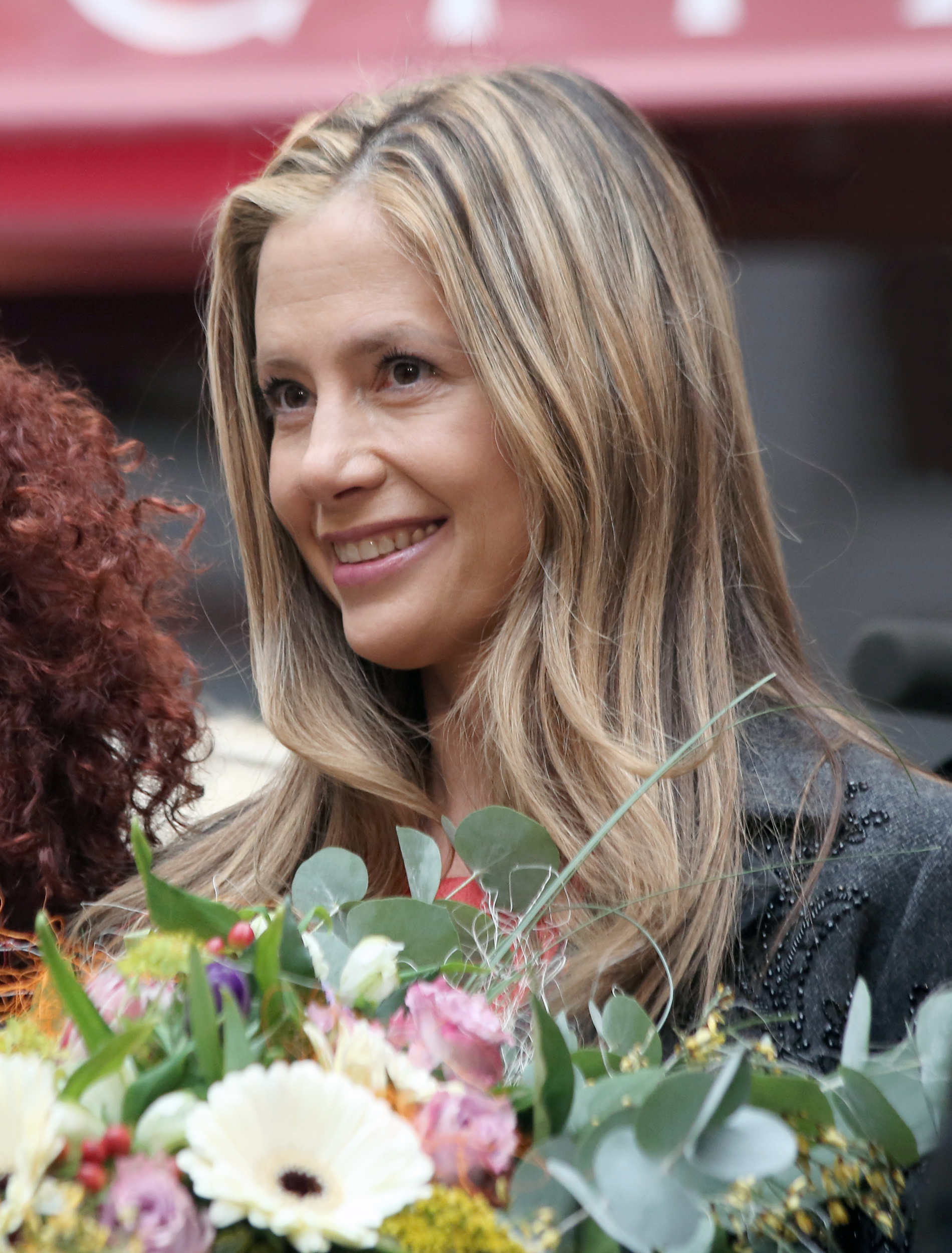 Mira Sorvino, guest of Richard Lugner for the Vienna Opera Ball 2013, at a signature session at Lugner-City in Vienna,Austria).